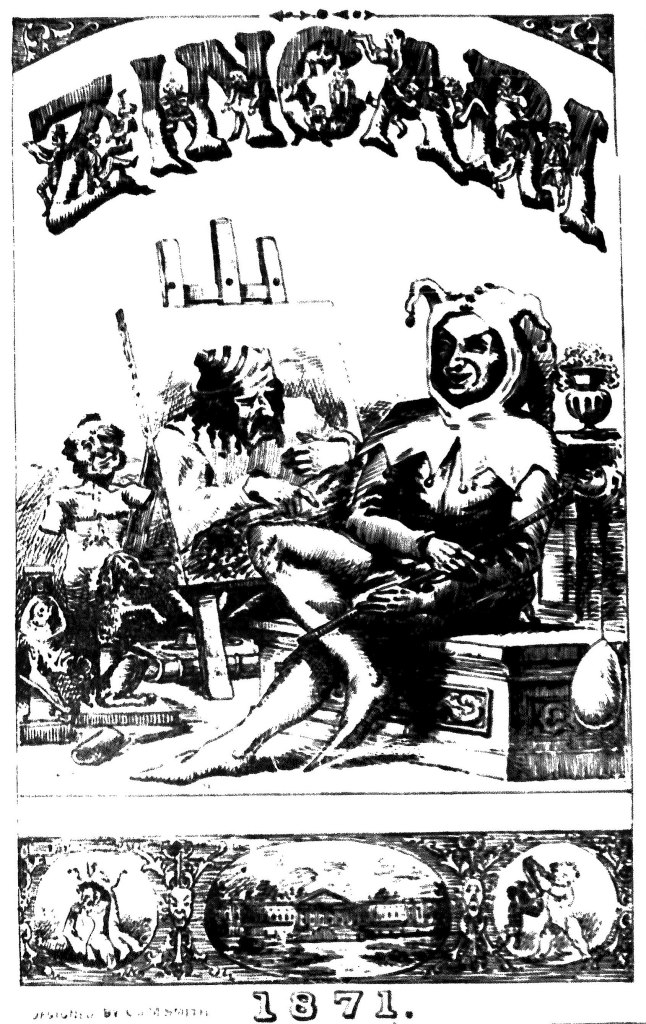 Front cover of an edition of Zingari the radical Cape newspaper of the 1870s. National Library of South Africa.